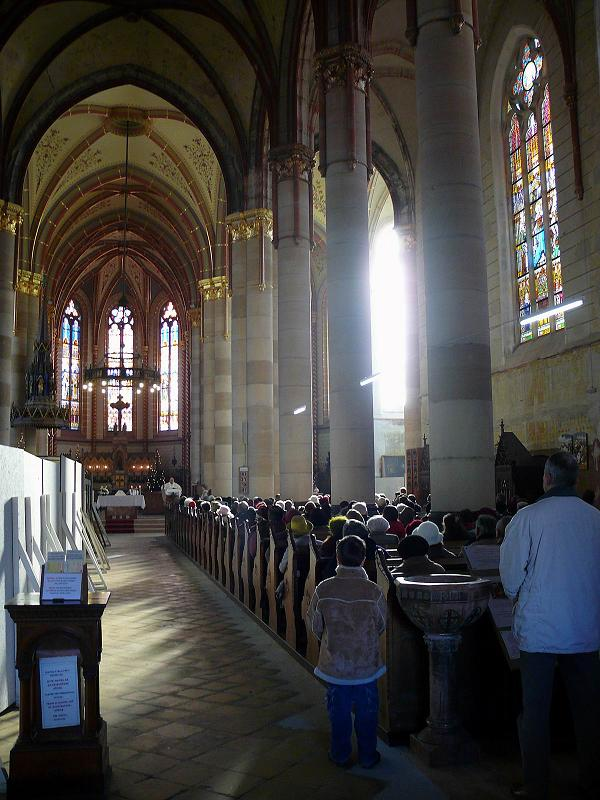 The St Elisabeth Church in Budapest